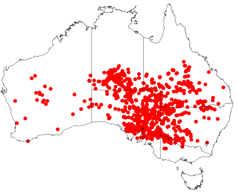 Hakea leucoptera Occurrence data downloaded from Australasian Virtual Herbarium on 22 November 2018 using